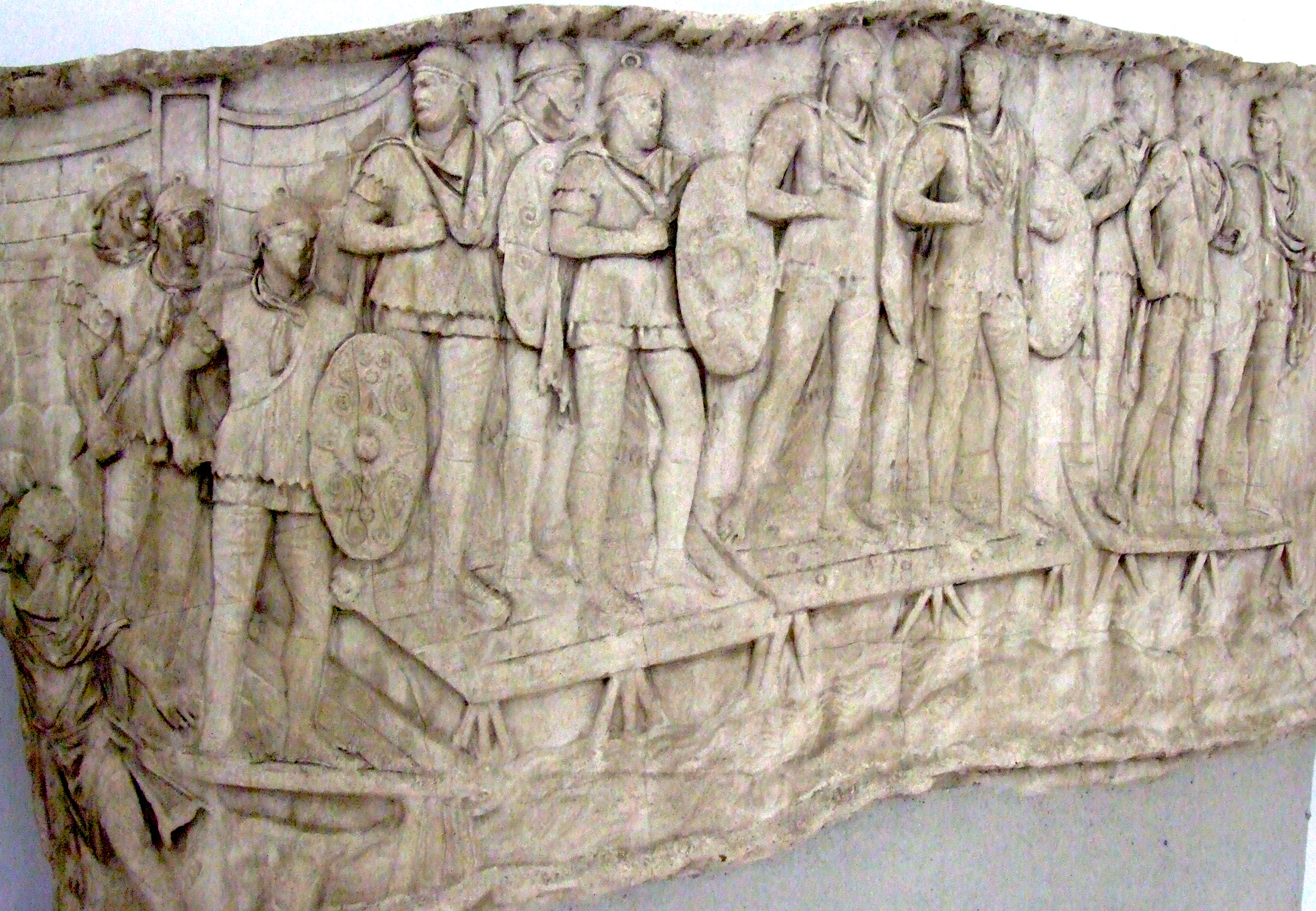 Romanian National History Museum Cast